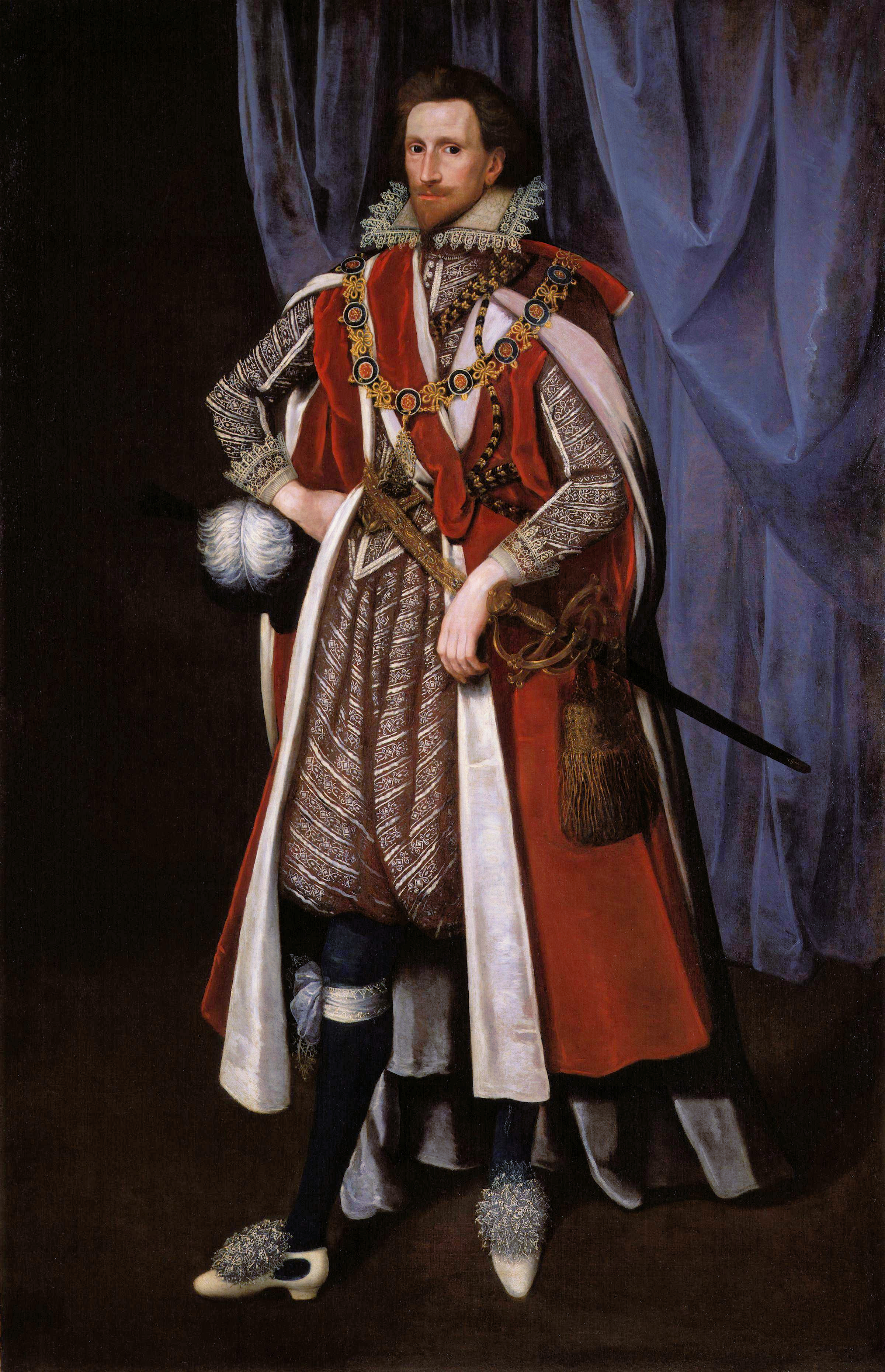 Portrait of Philip Herbert, 4th Earl of Pembroke in the robes of the Order of the Garter. This description is for the initial mass upload, and they will be updated to be image-specific in a second pass by a bot. All images in this batch have an unknown author, but there is strong evidence it was first published before 1923 (based mainly on the NPG's estimated date of the work).